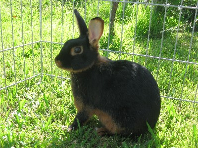 Photo of "Glory" tan colored Elfin rabbit.